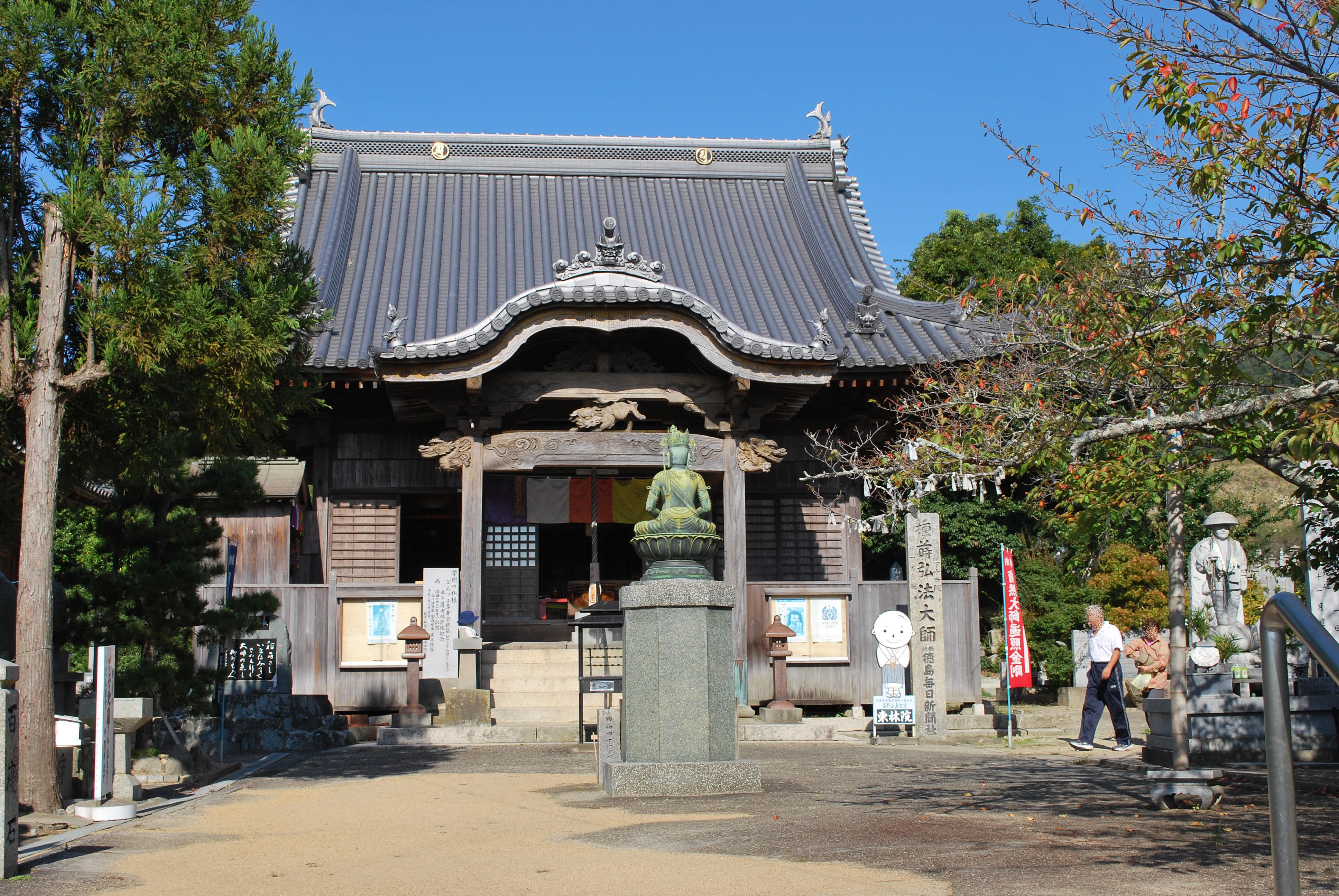 Daishi-dō, Tanemaki-daishi